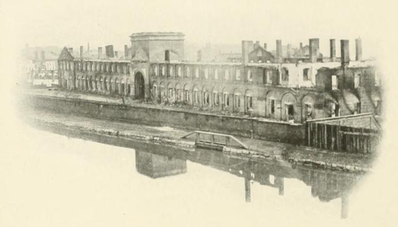 The charred remnants of the Confederate arsenal at Richmond